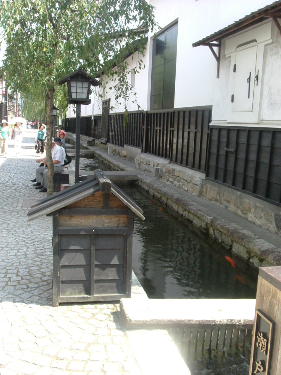 Furukawa town